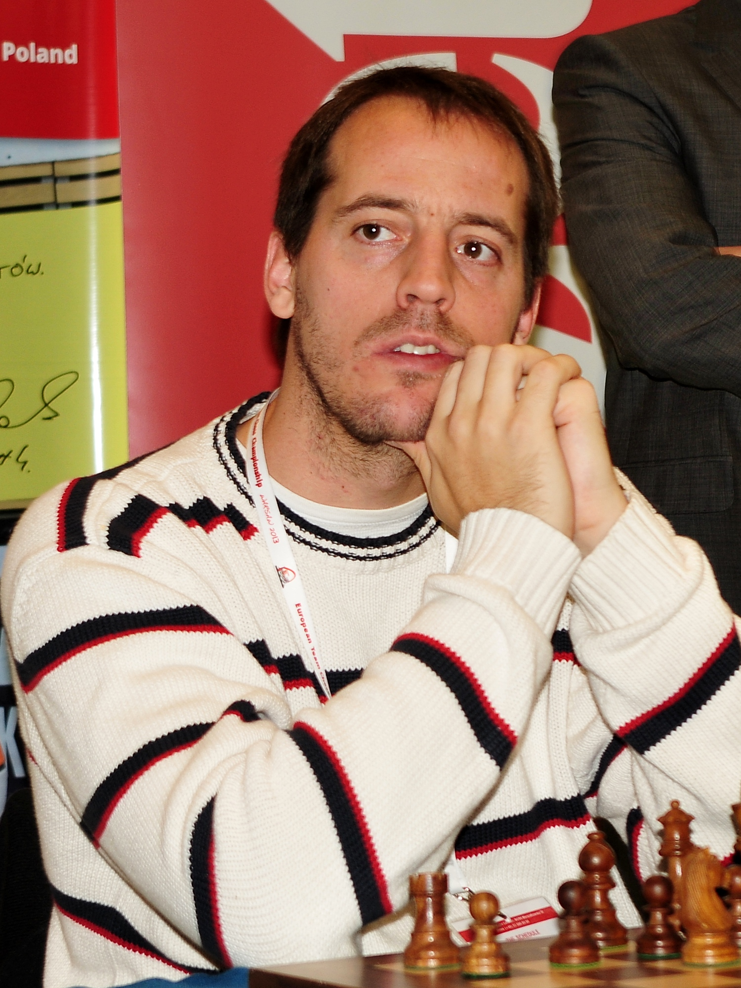 GM Francisco Vallejo Pons, European Chess Team Championship Warsaw 2013